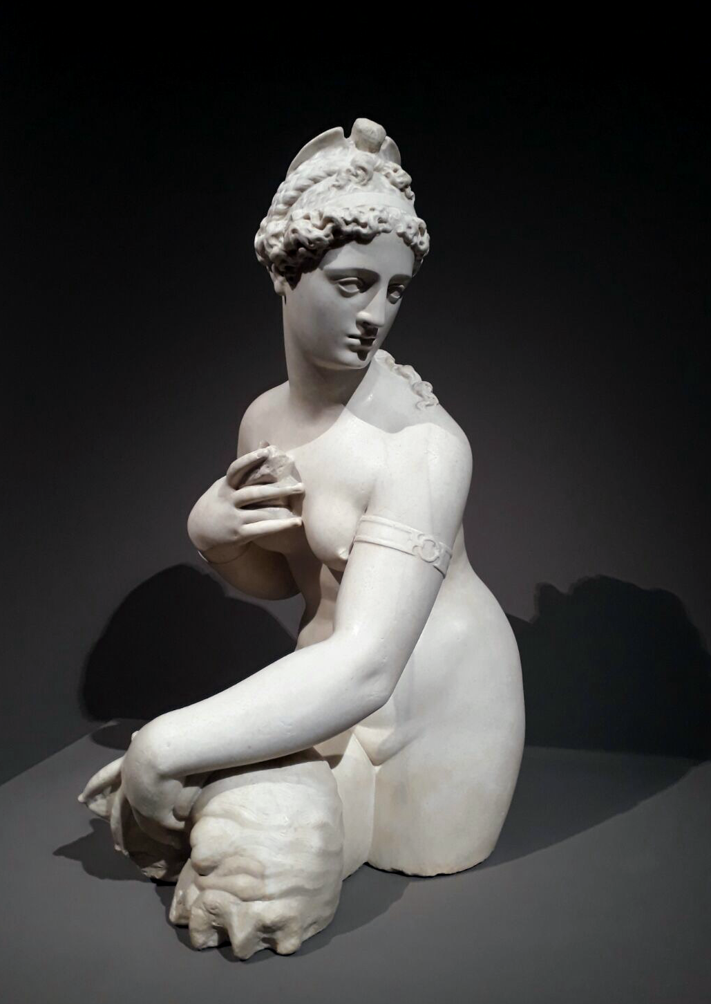 Giambologna, Fata Morgana (Morgan le Fay), statue for "Fonte della Fata Morgana" (Morgan le Fay's spring) building. Grassina, Bagno a Ripoli, Firenze, Italy.